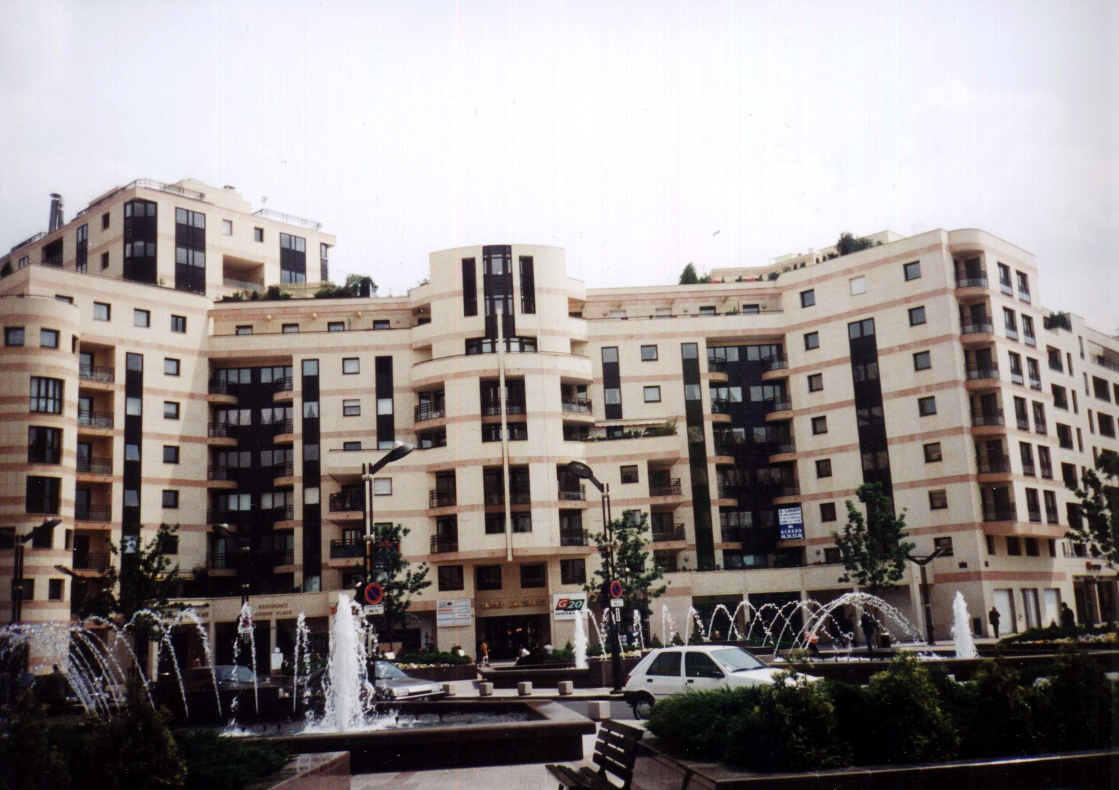 Condominiums in Levalois Perret, near Paris, 1990 (conception & design)